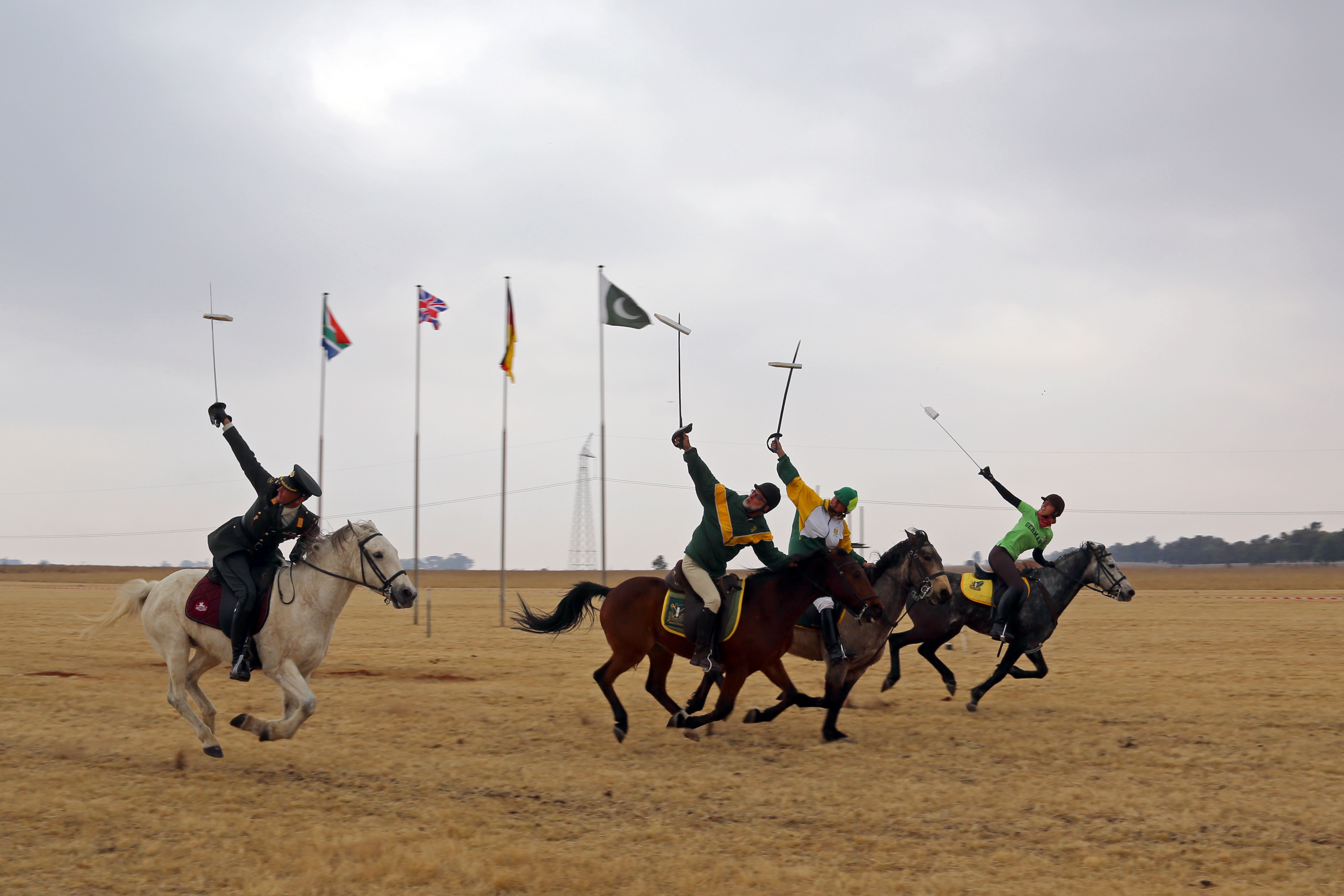 "Team Sword" tentpegging competition at a tournament in South Africa